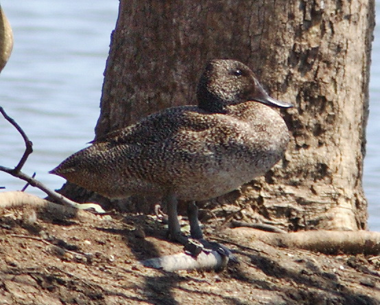 Freckled Duck, Stictonetta naevosa, female; wild bird